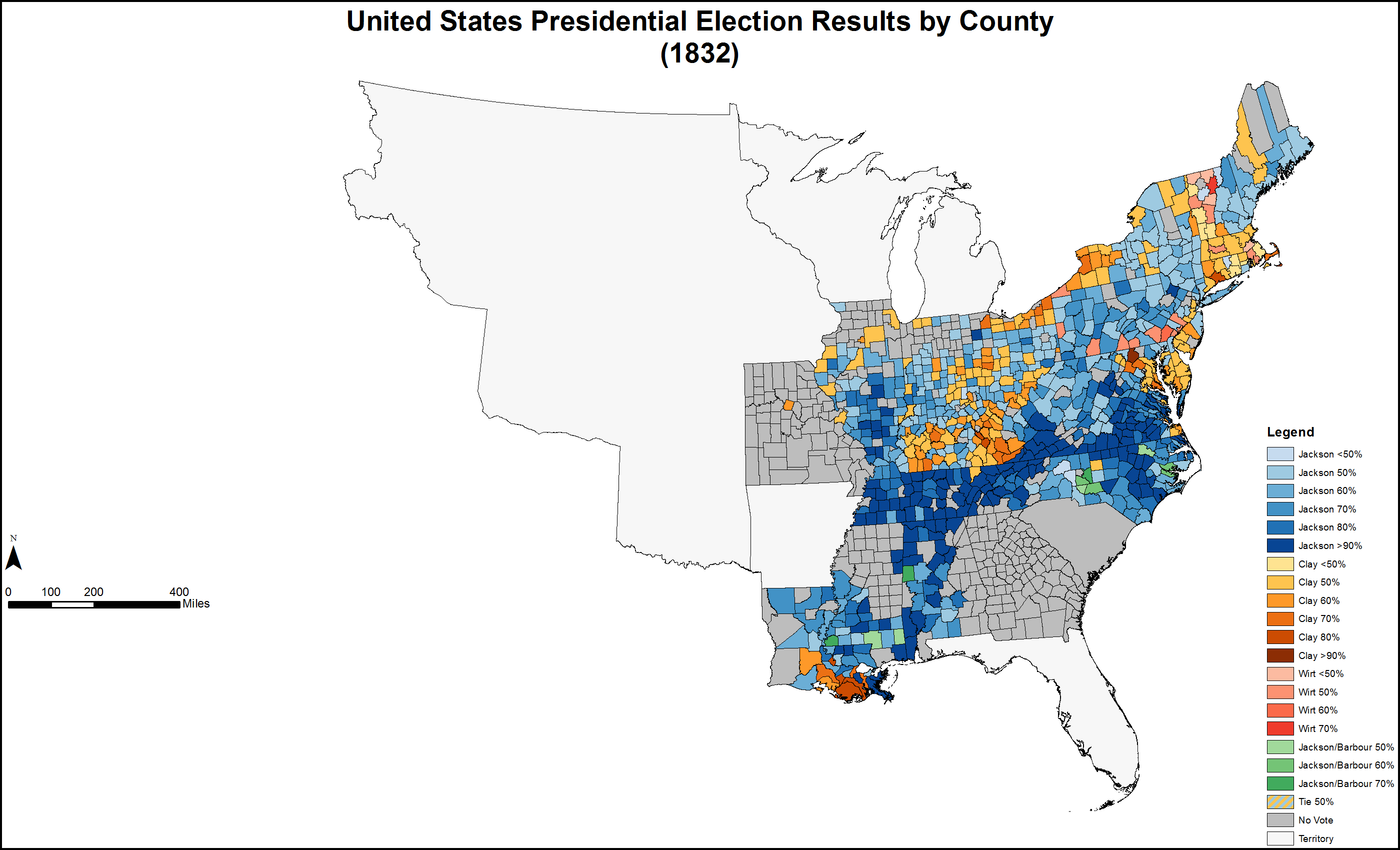 Presidential election results by county (1832). Colors based on Colorbrewer 2.0.